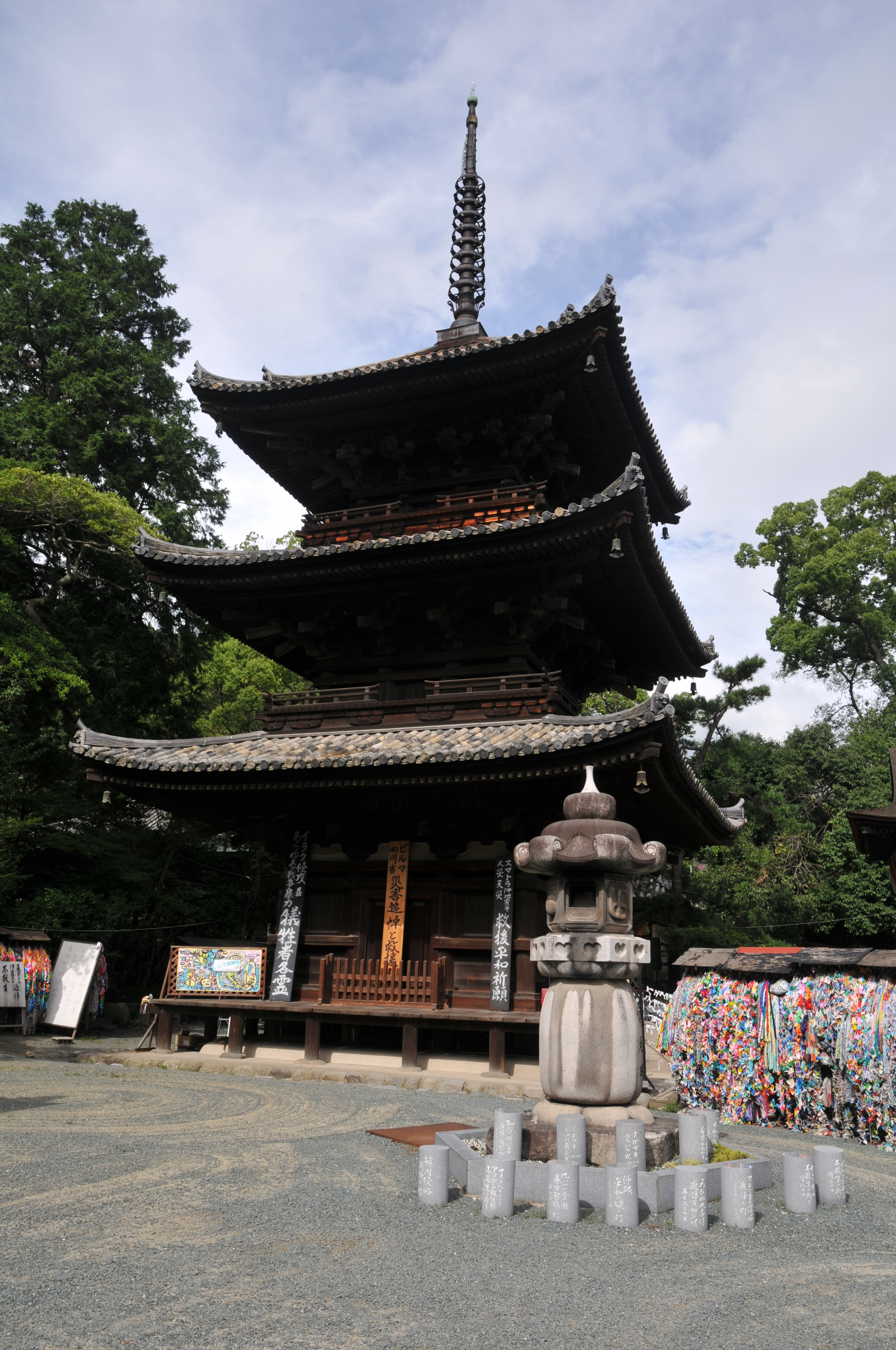 Three-storied Pagoda(Japan's national important cultural property), Ishite-ji, Ehime pref., Japan